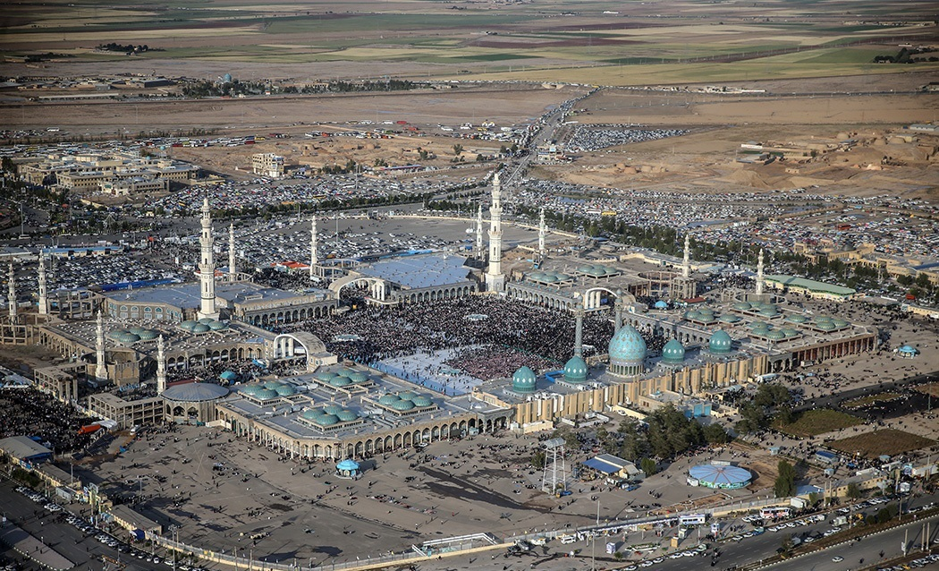 Mid-Sha'ban 1439 AH day, Jamkaran Mosque, Qom. main album